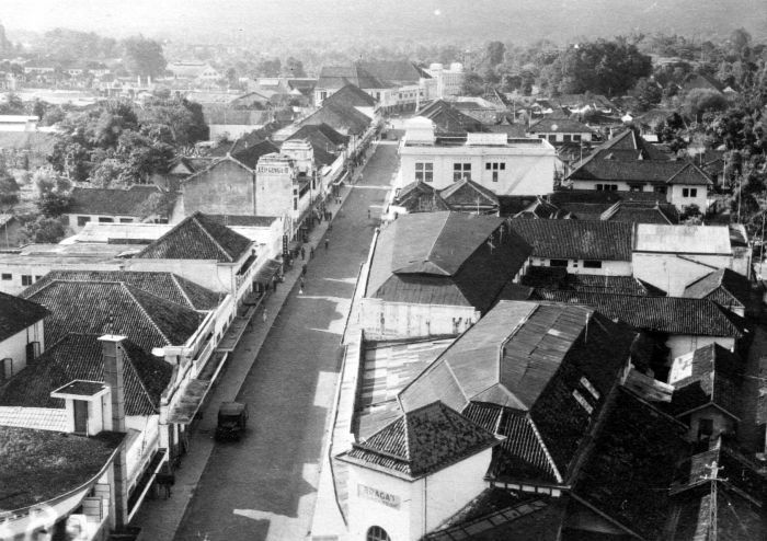 View from the DENIS bank building over the north side of the 'Bragaweg'